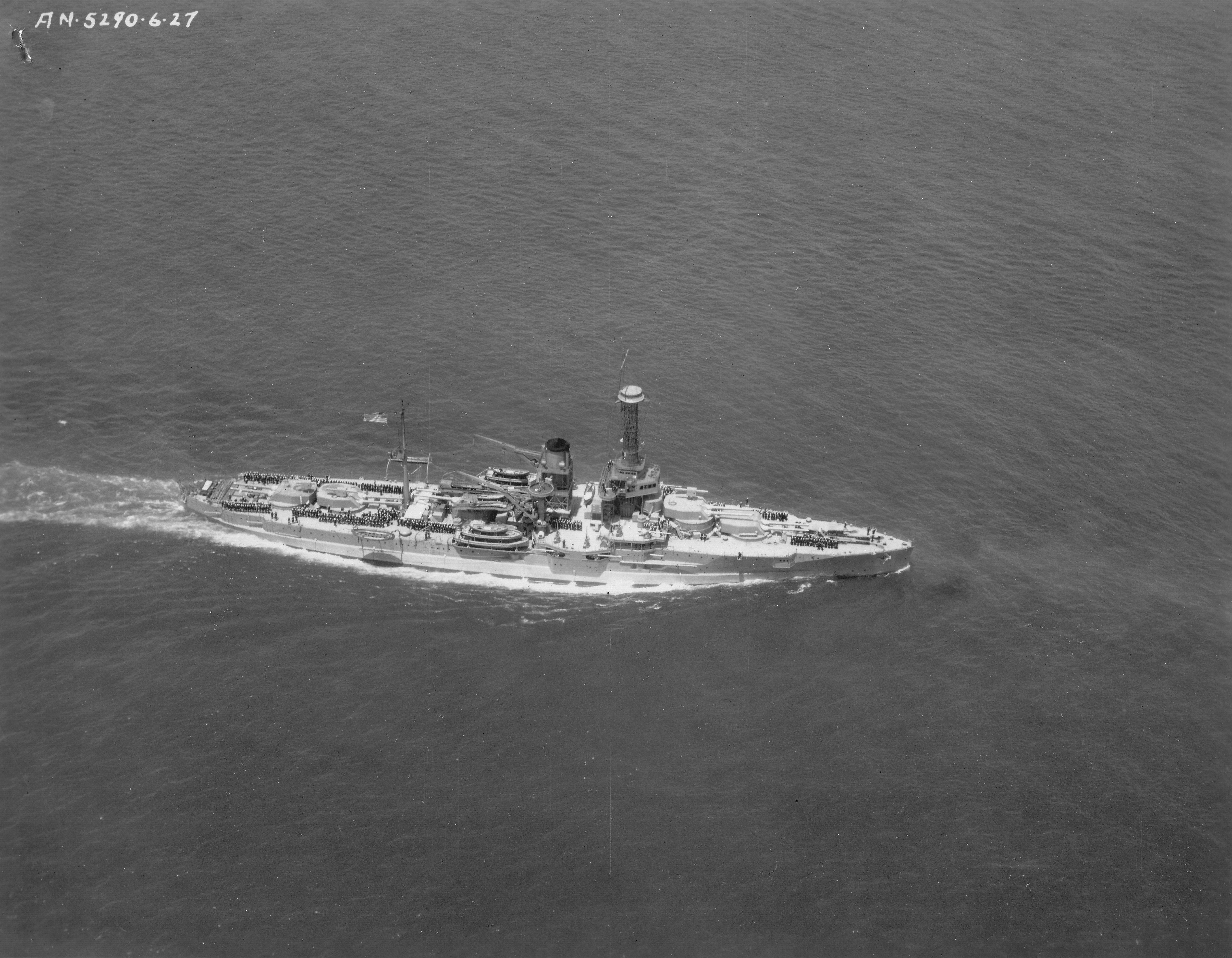 Aerial view of the USS Florida during a presidential naval review in Hampton Roads, Virginia, June 4, 1927.